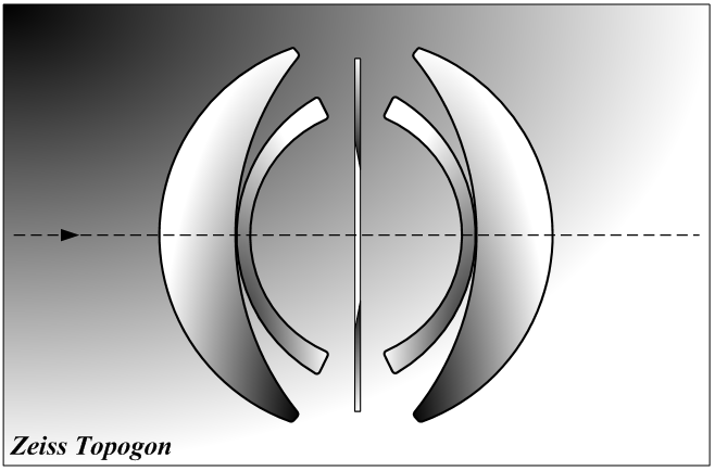 Topogon lens.